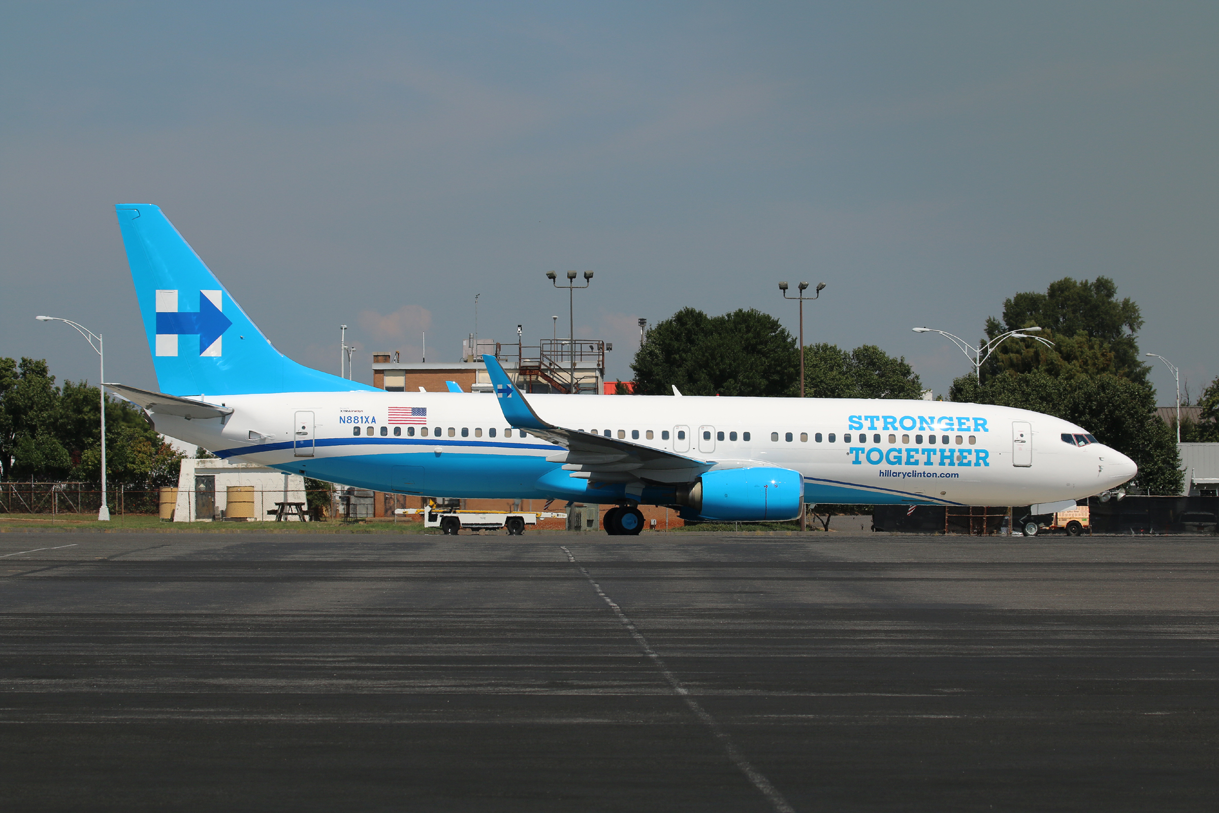 Charlotte Douglas Airport (KCLT) 09/16 in the custom Hillary Clinton Presidential campaign colour scheme.